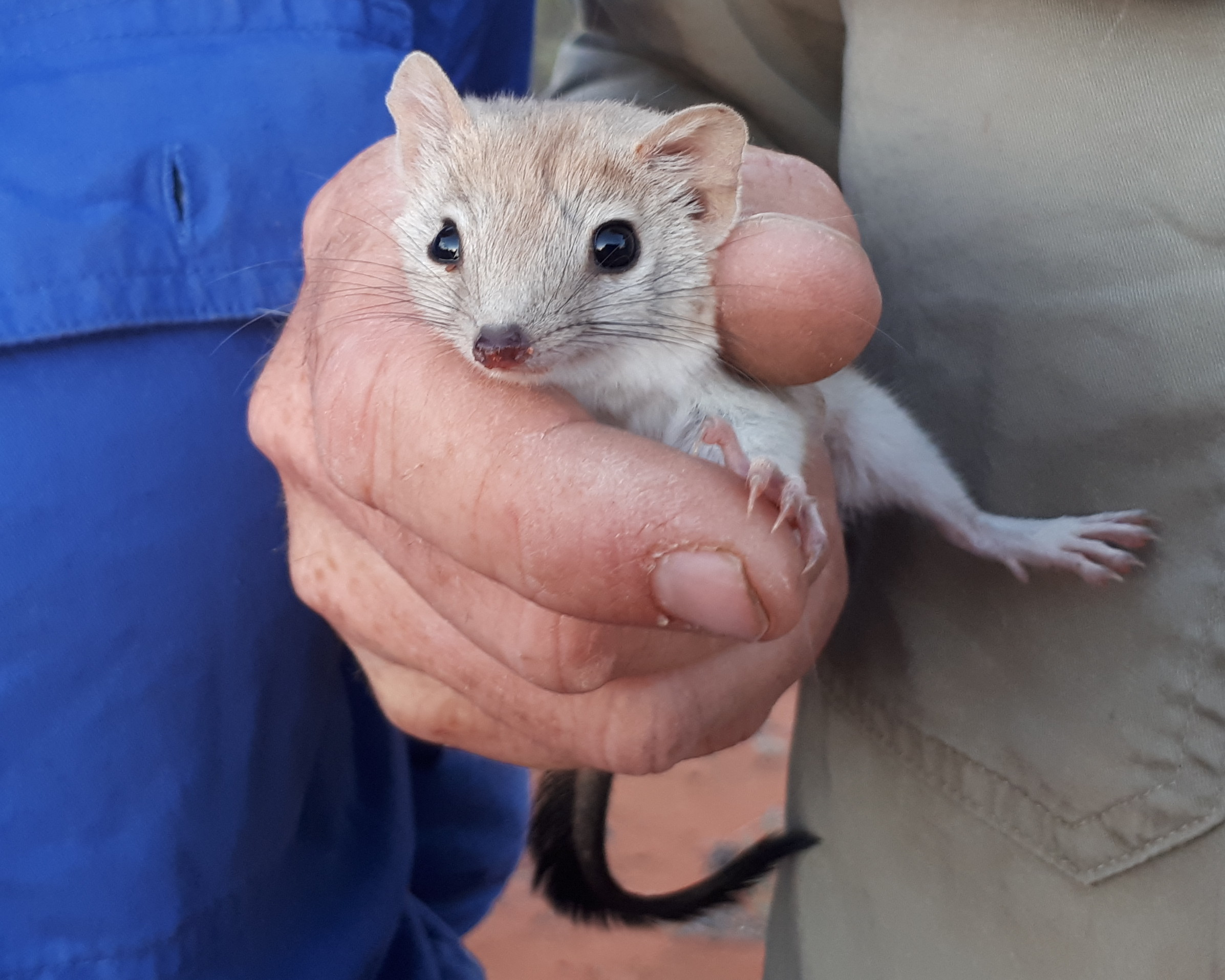 Wild Deserts Project, University of New South Wales, team member Reece Pedler holds a Crest-tailed Mulgara, a small carnivorous marsupial known only from fossilised bone fragments and presumed extinct in NSW for more than century, Ur was discovered again in 2017 in Sturt National Park north-west of Tibooburra, Australia.